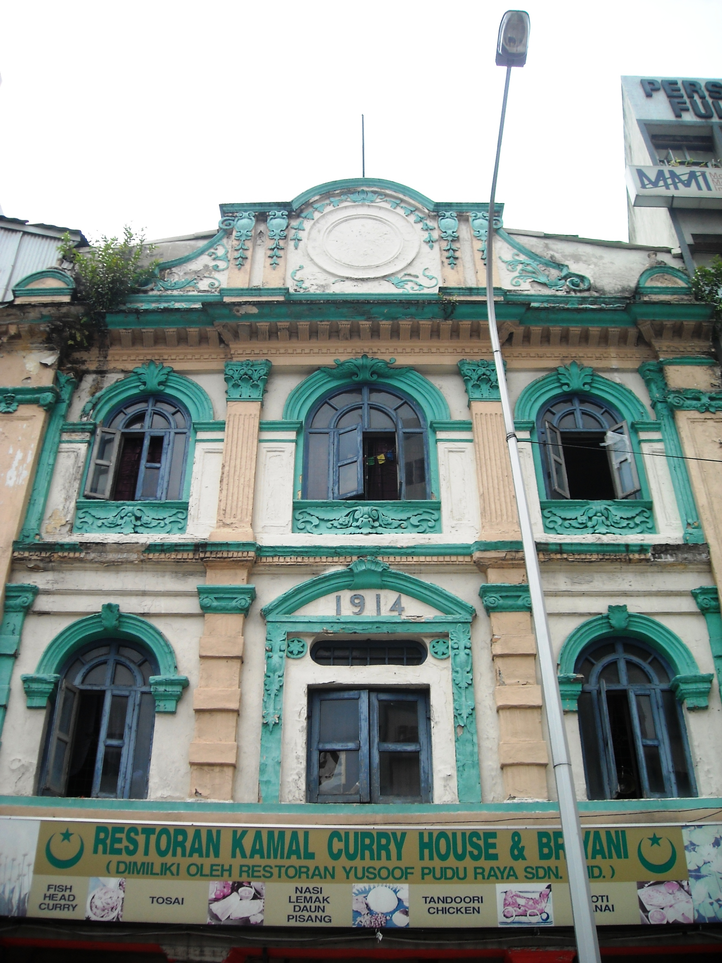 Jalan Tun HS Lee, Kuala Lumpur